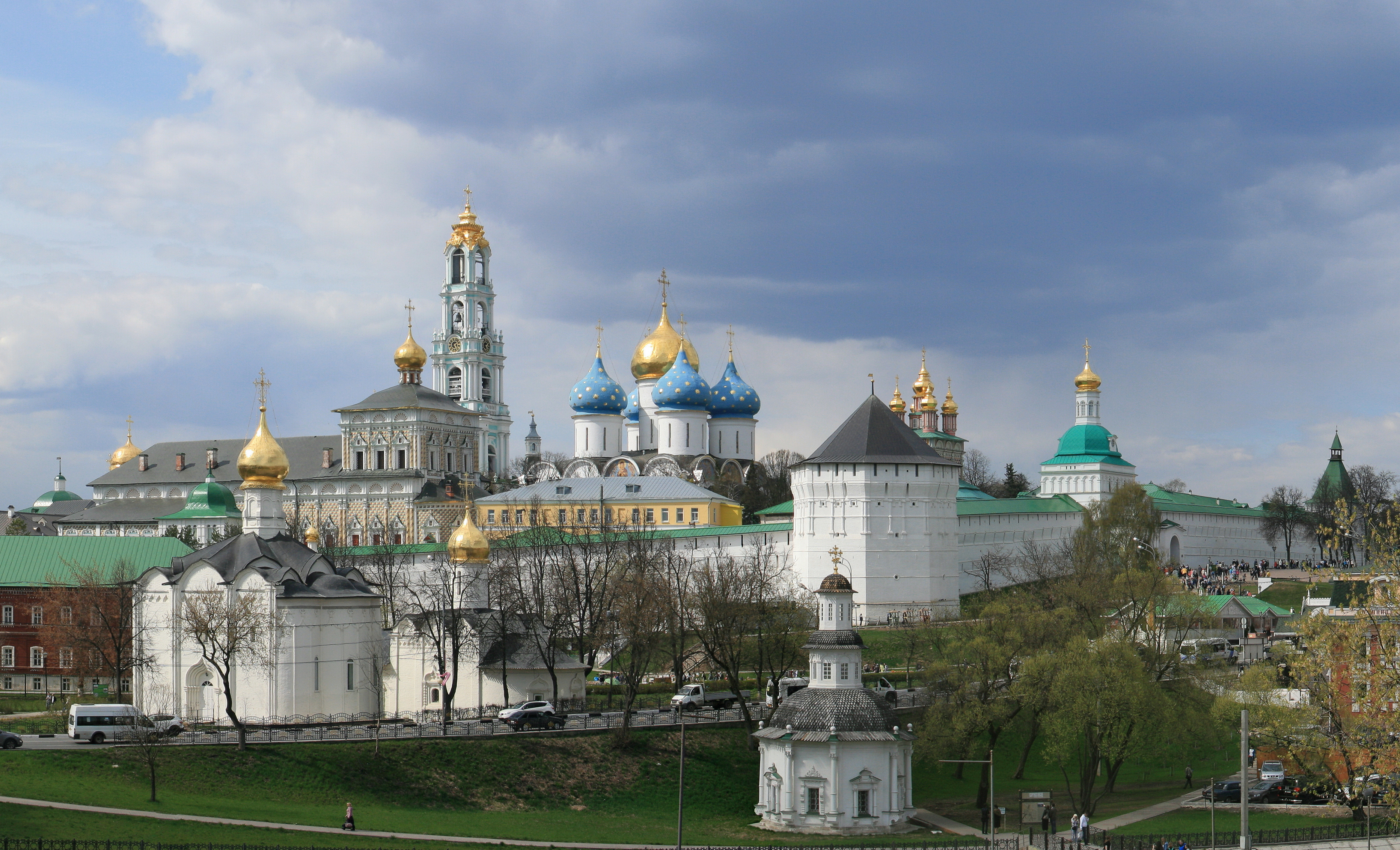 General view of Troitse-Sergiyeva Lavra